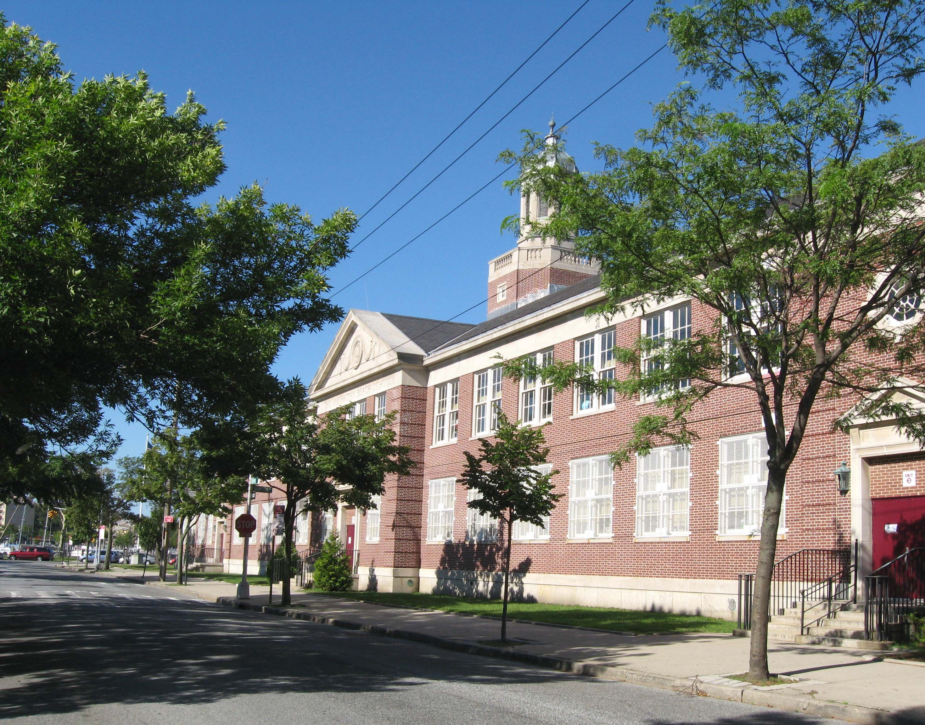 Looking north across Irwin Street at Manhattan Beach elementary school on a sunny afternoon